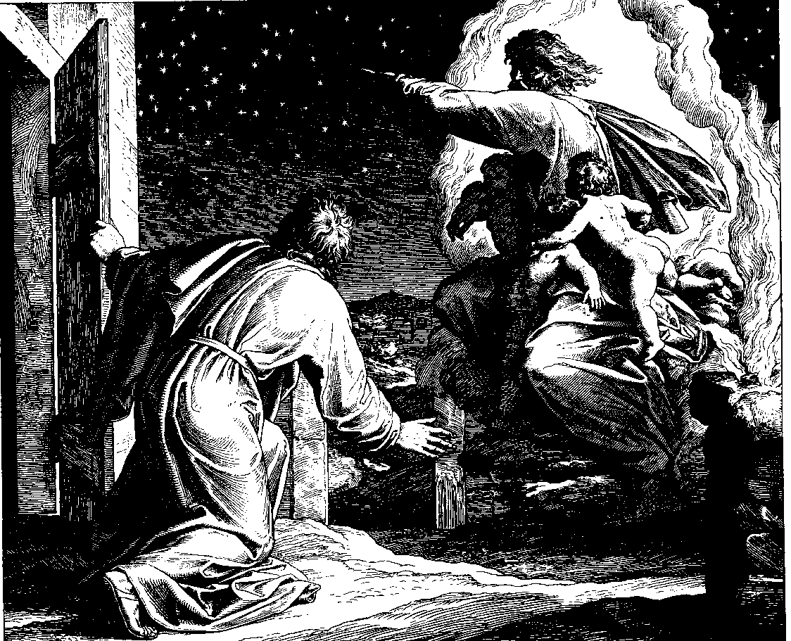 Woodcut for "Die Bibel in Bildern", 1860.